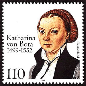 Stamp from Deutsche Post AG from 1999, 500th birthday Katharina von Bora